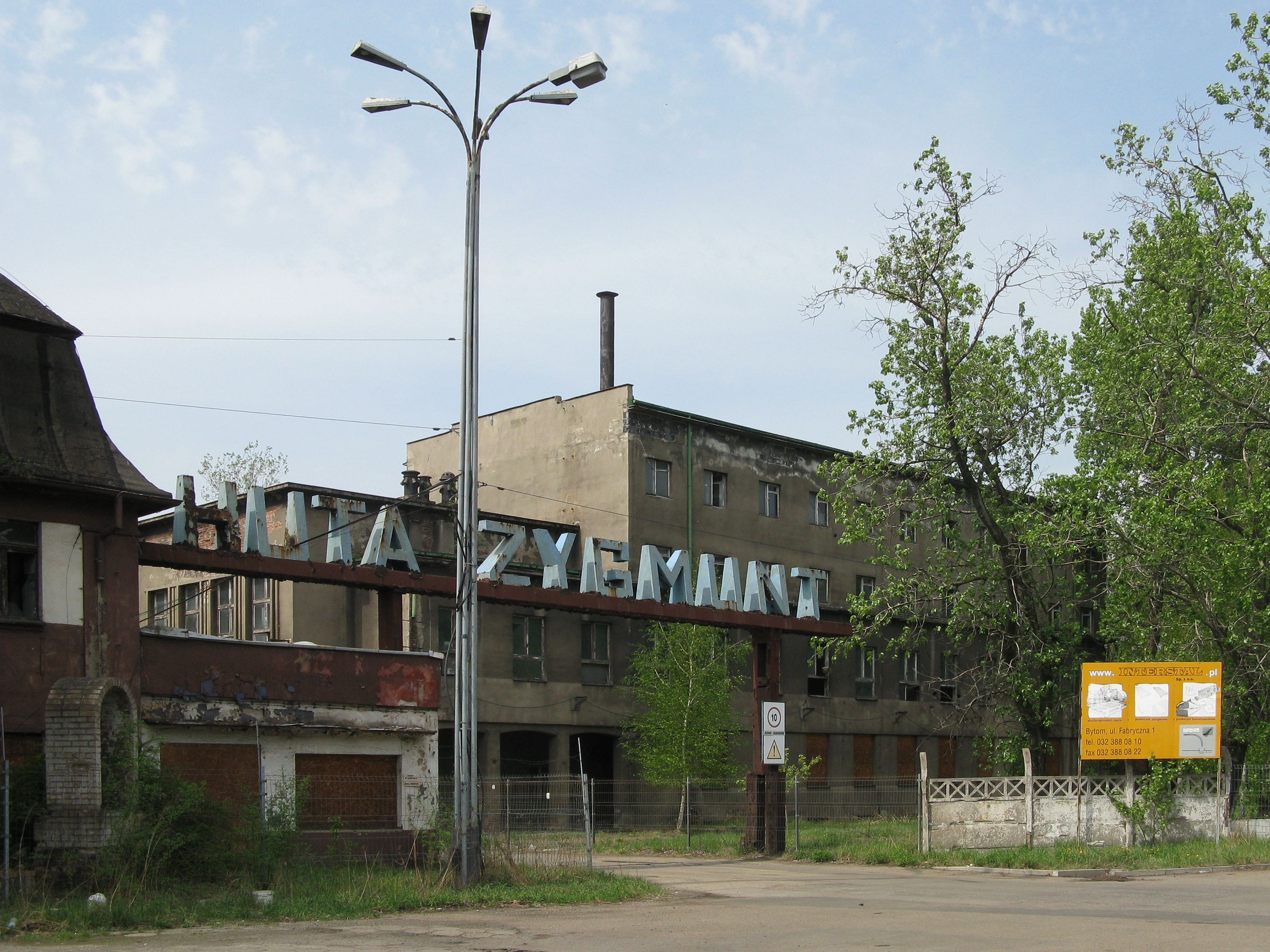 The entrance to the former Huta Zygmunt (Zygmunt Steelworks) in Bytom-Łagiewniki, Fabryczna street, Poland.